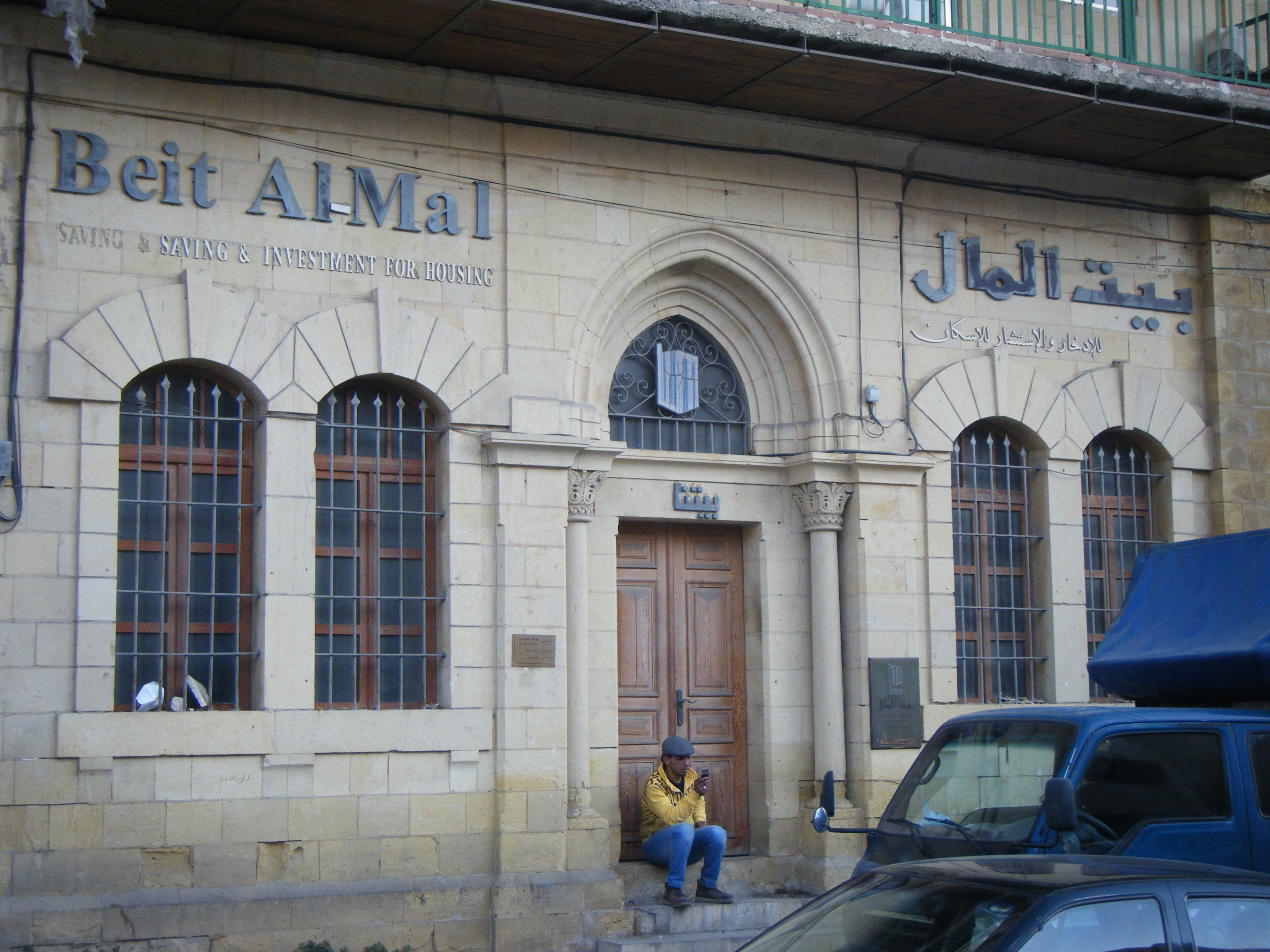 Beit Al Mal building in Salt, Jordan